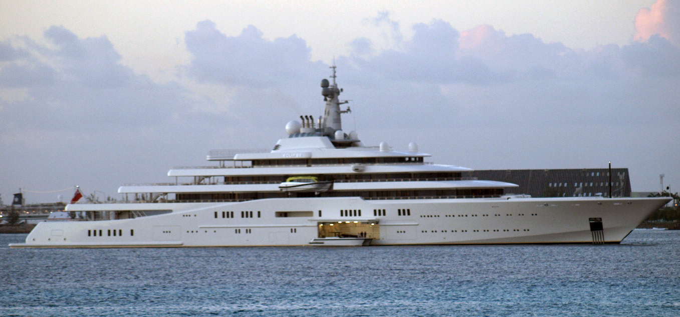 The Eclipse yacht in Carlisle Bay, Barbados in 2012 showing one of the landing boats being launched from a hatchway at the side.